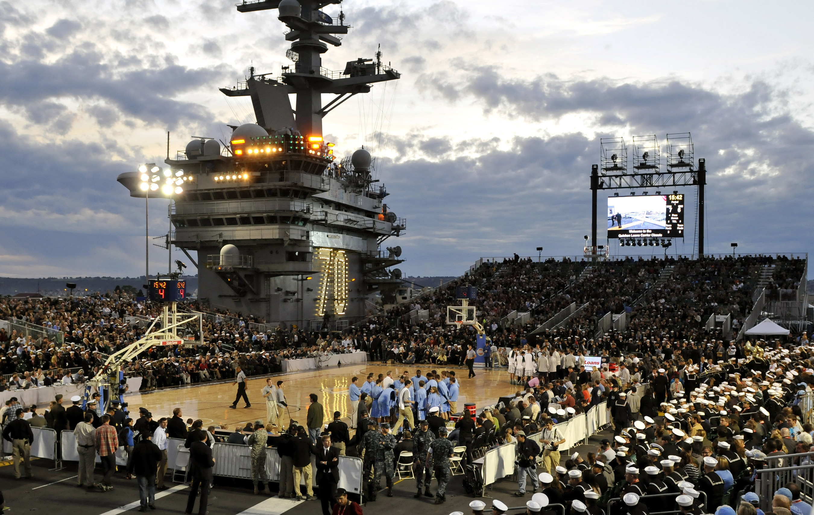 SAN DIEGO (Nov. 11, 2011) The Michigan State University and the University of North Carolina basketball teams gather on the court before the tip-off to the inaugural Quicken Loans Carrier Classic aboard the aircraft carrier USS Carl Vinson (CVN 70). (U.S. Navy photo by Mass Communication Specialist 3rd Class Roza Arzola/Released)